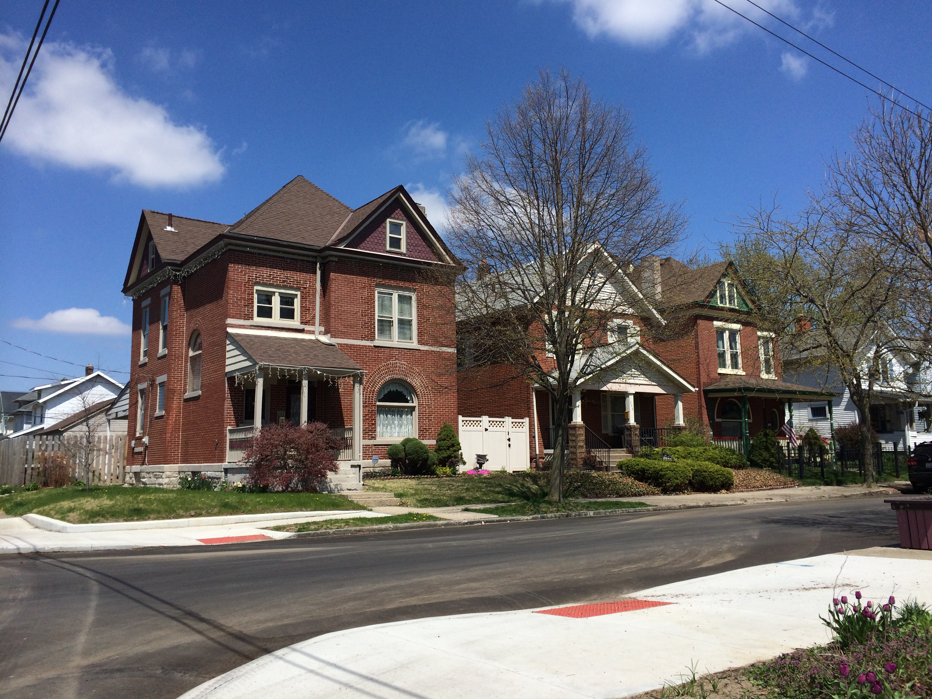 Dutch Colonial Style residences located in Hungarian Village, Columbus, Ohio